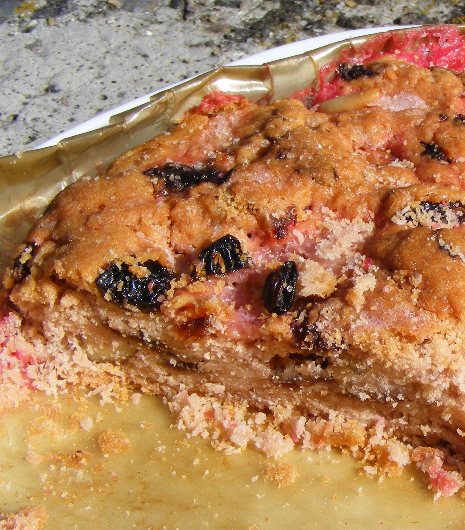 Schiaccia briaca pie from Elba Island (LI, Italy)